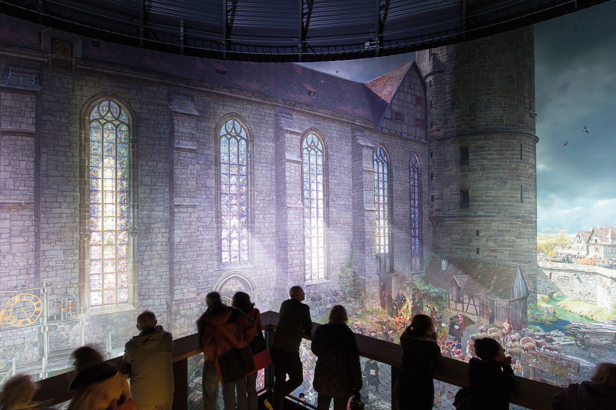 Visitors are watching the Castle Church in the Panorama LUTHER 1517 (c) asisi